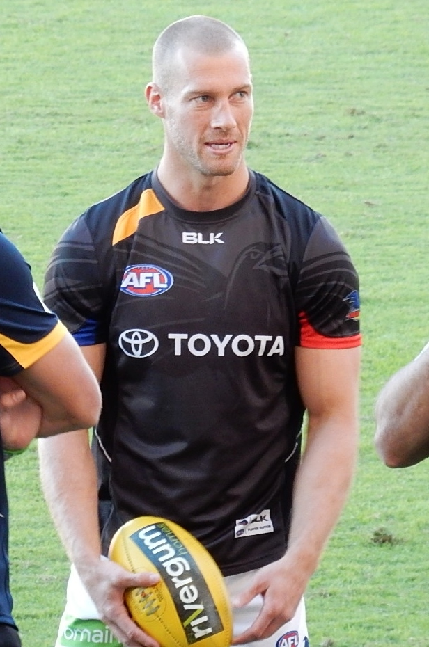 Scott Thompson and Assistant Coaches Chat Before the Game